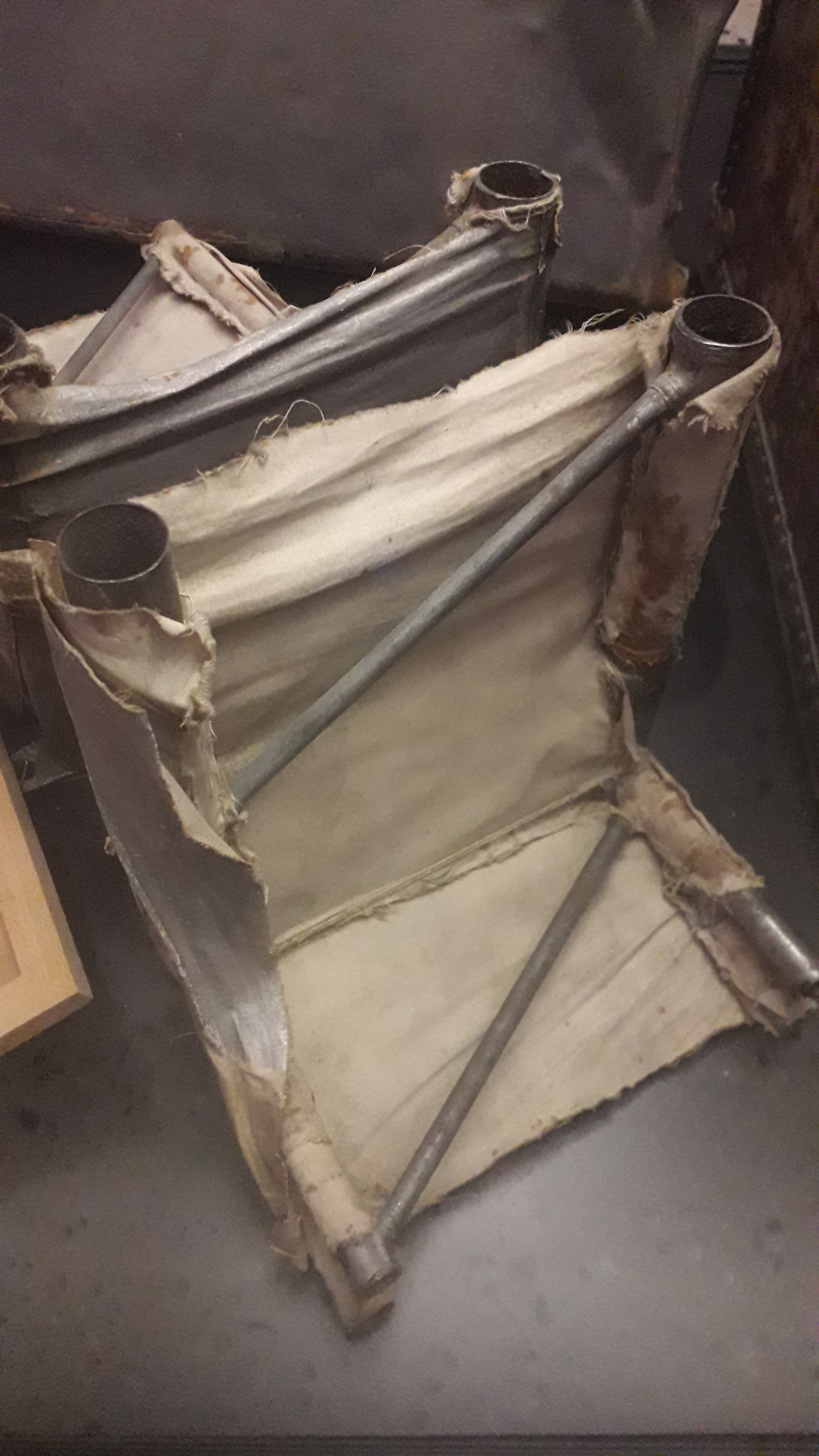 tailplane section from the Norge airship, preserved at the Fram Museum, Oslo, Norway